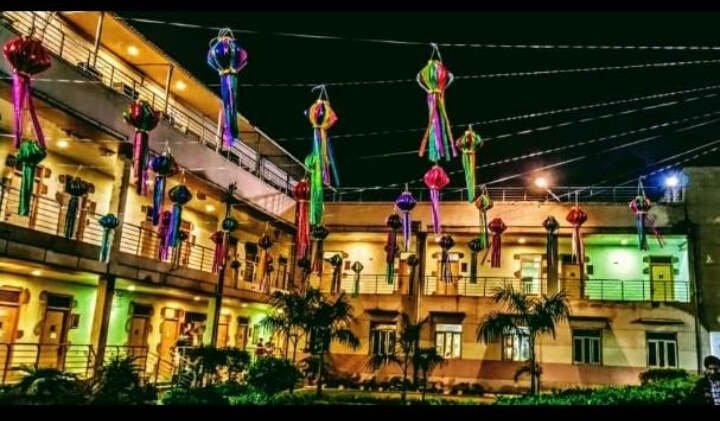 This is a marvel photo of my graph